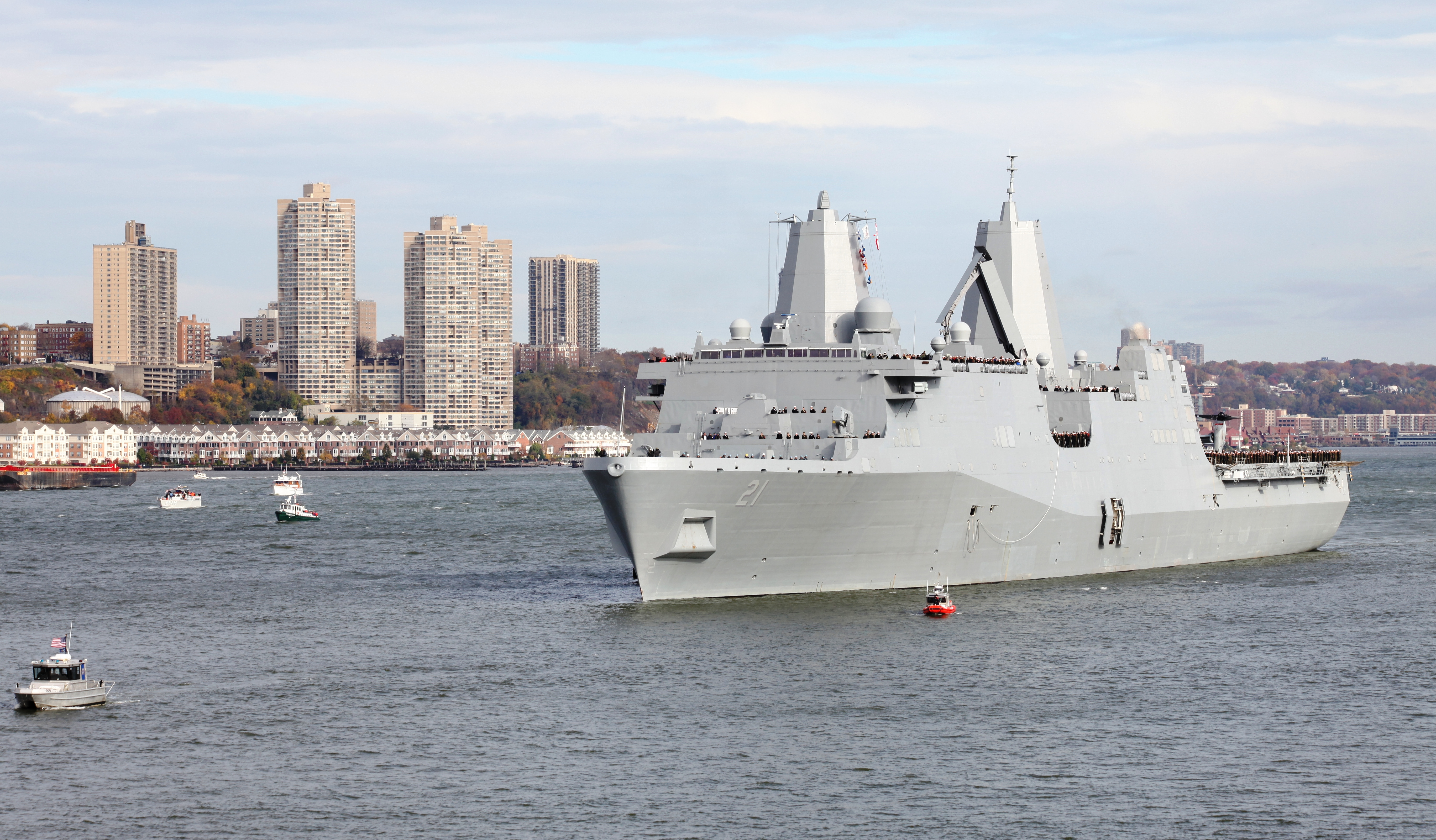 The amphibious dock landing ship Pre-Commissioning Unit (PCU) New York (LPD 21) transits New York Harbor.